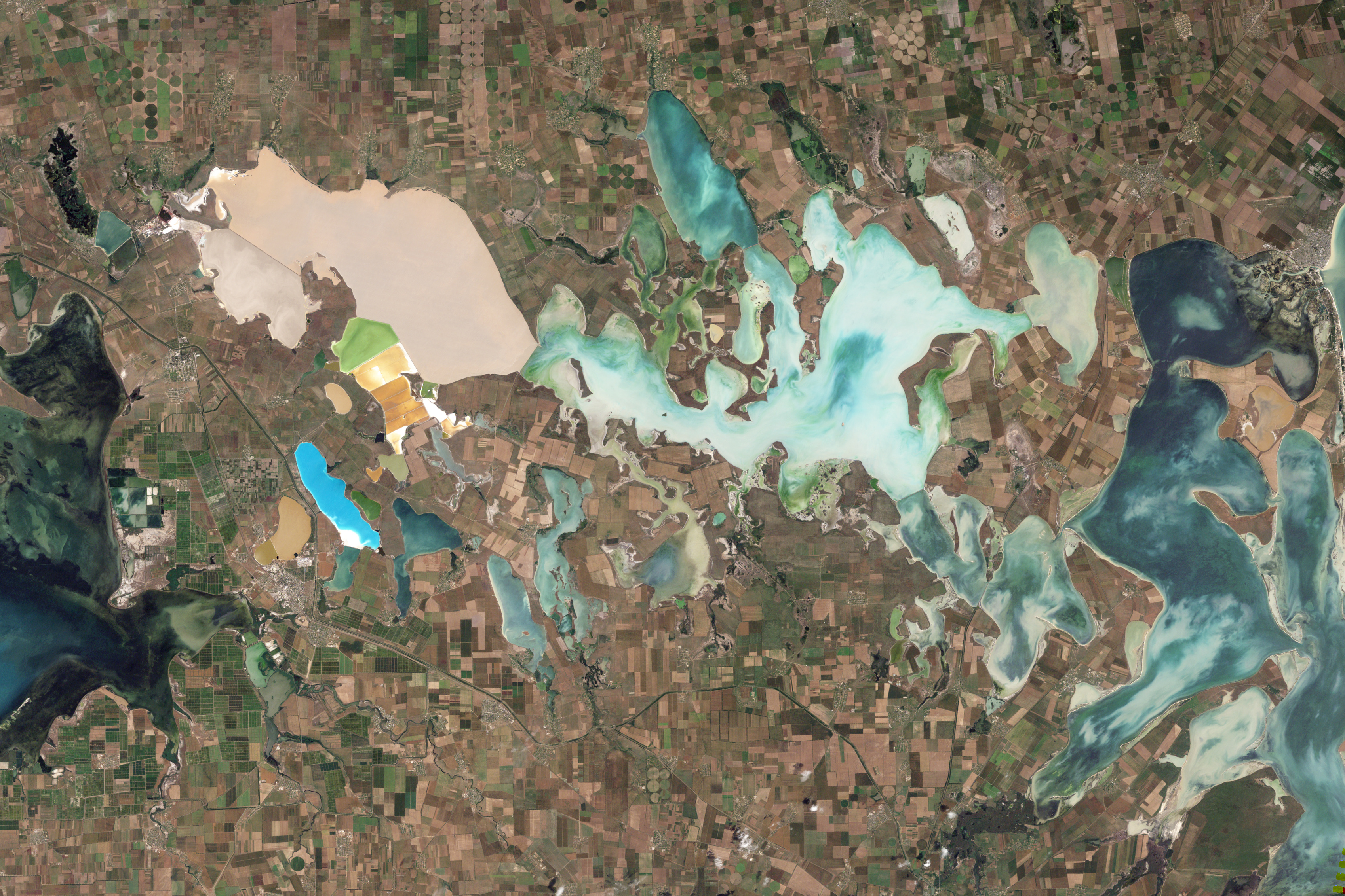 Natural-colour image of Sivash. The shallow waters of Sivash appear in shades of peach, mustard, lime green, brilliant blue, muted blue-green, beige, and brown. Thick layers of silt coat the bottoms of the shallow marshes, which are rich enough in mineral salts to supply a local chemical plant. The marshes’ shallowness and chemical composition contribute to their unearthly colours in satellite imagery. Surrounding the marshy areas are agricultural fields, most of them rectangular, but some of them shaped by centre-pivot irrigation systems. Urbanized areas appear along the shores of the Black Sea, and highways curve and zigzag across the peninsula.